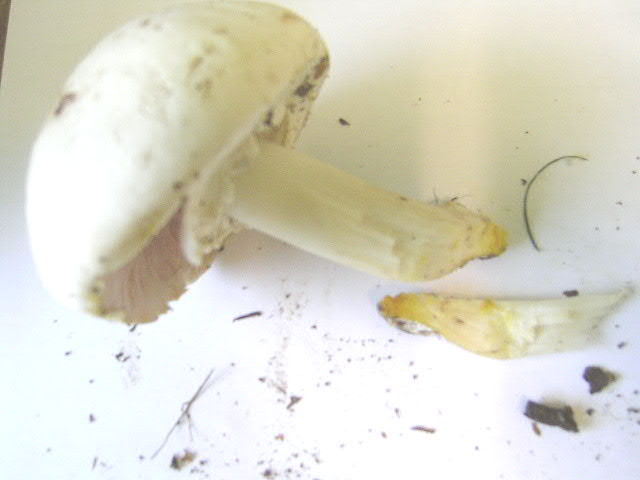 Agaricus xanthodermus (the Yellow Staining Mushroom), note the yellow staining on the cut section of the mushroom.